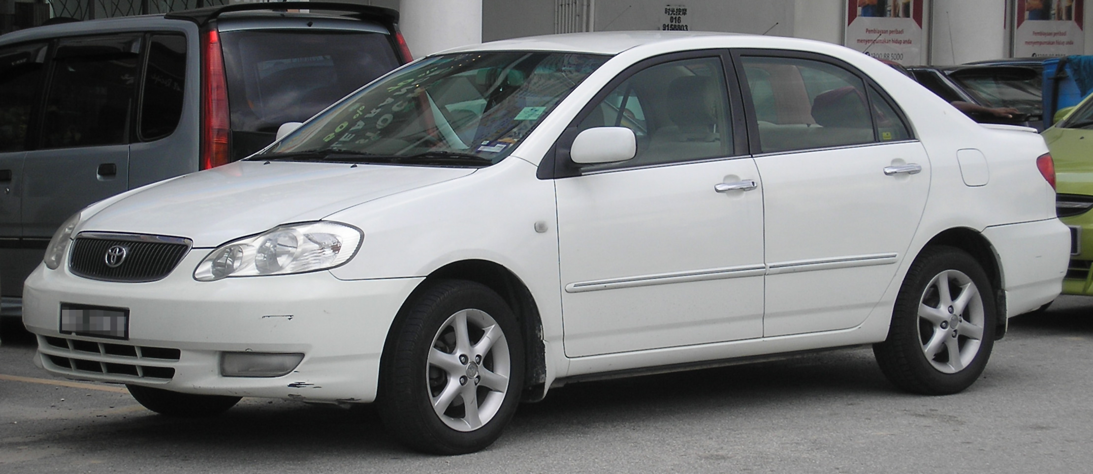 Front-side shot of a ninth generation Toyota Corolla (Altis; E120), in Serdang, Selangor, Malaysia.